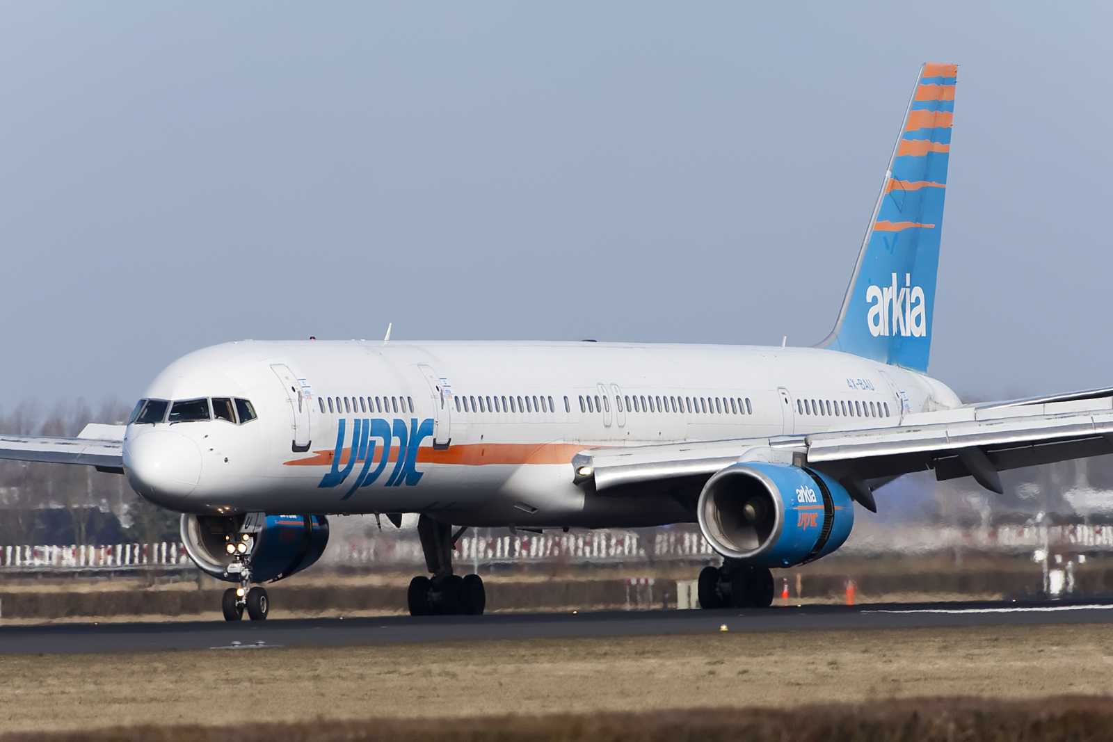 Schiphol